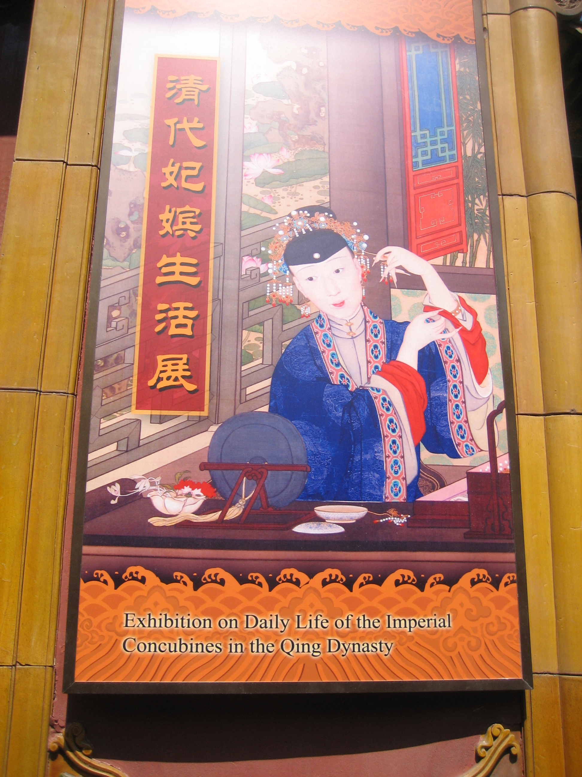 Art collection in the Forbidden City, Beijing